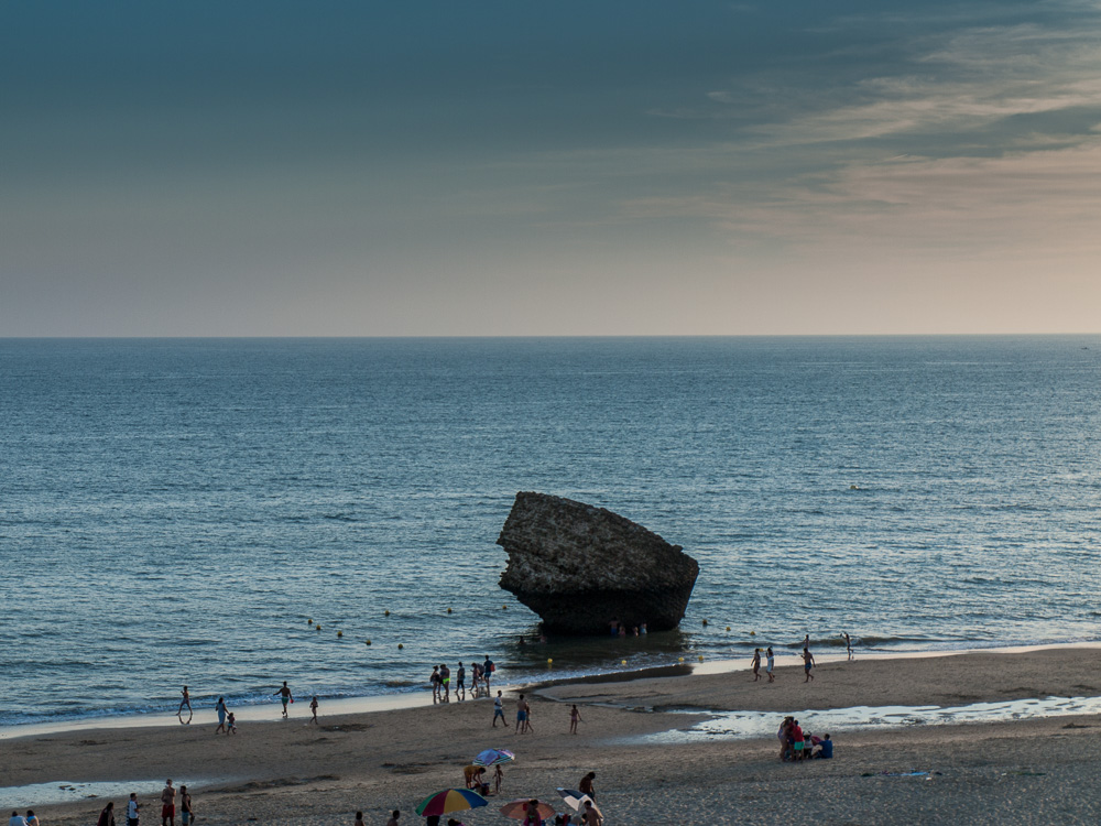 Beach and ancient tower